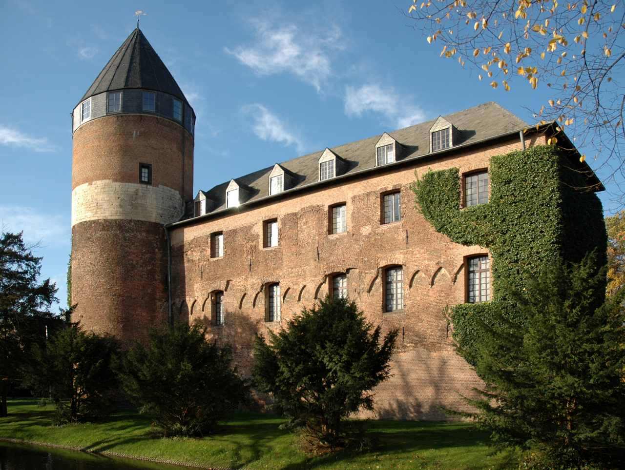 Brüggen Castle, eastern aspect This image shows a heritage building in Germany, located in the North Rhine-Westphalian city Brüggen (no. 2).